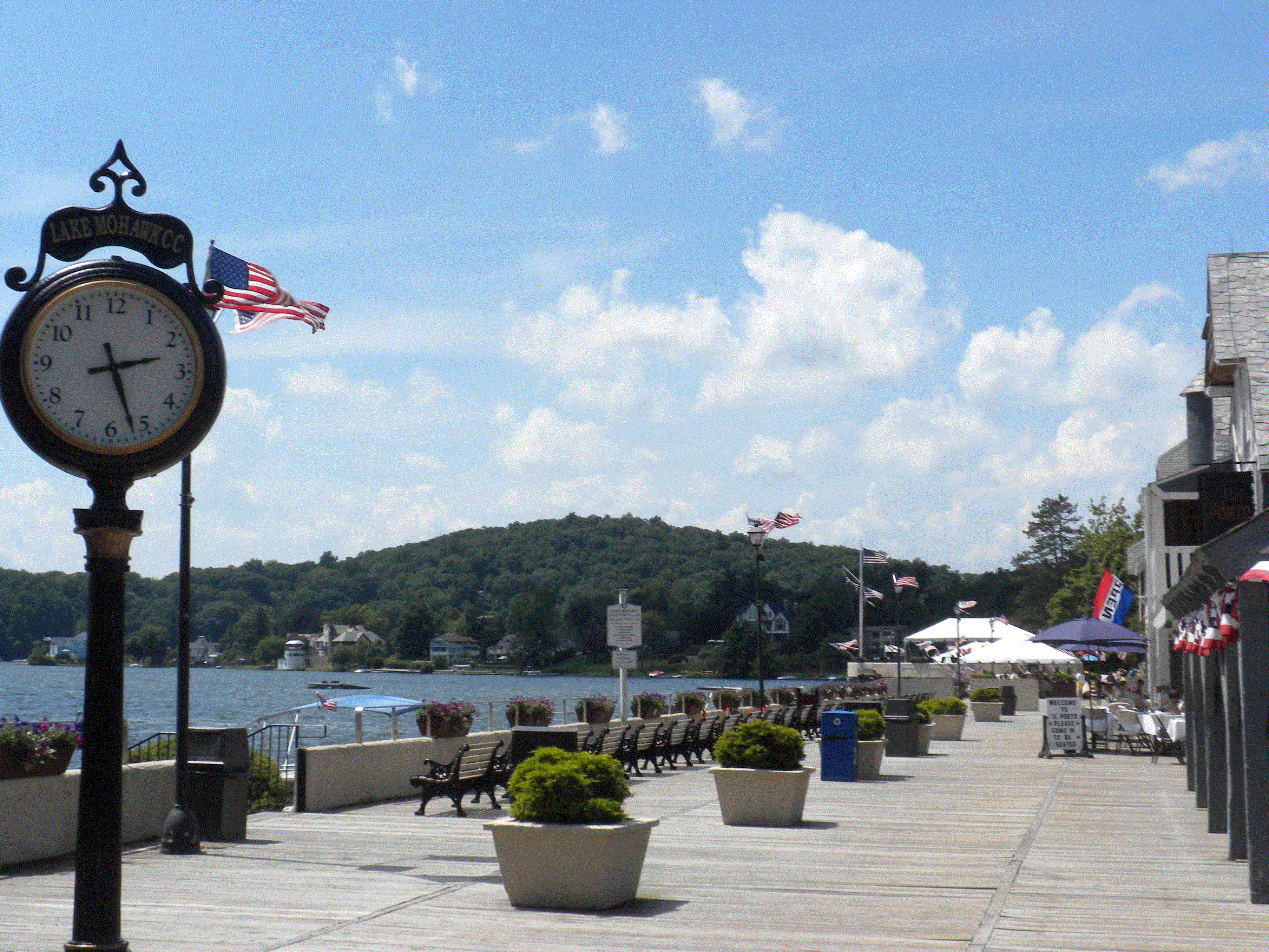 Boardwalk on Lake Mohawk in downtown Sparta